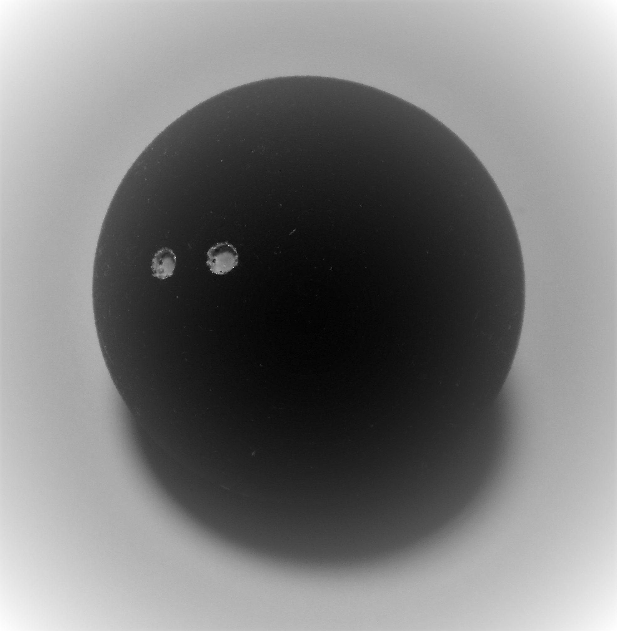 Squash Ball Dunlop Reveleation Pro with visible coloured dots